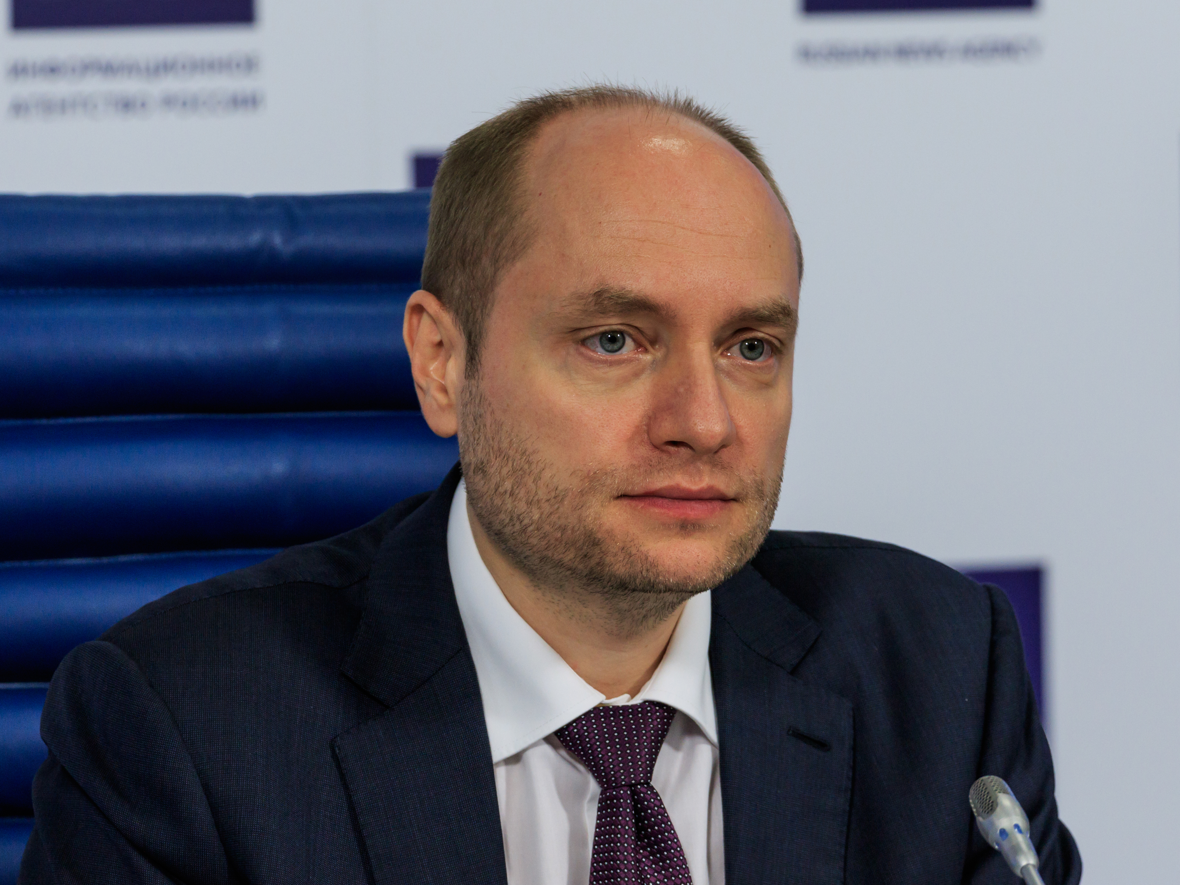 Alexander Galushka (b. 1975) is an economist and politician from Russia